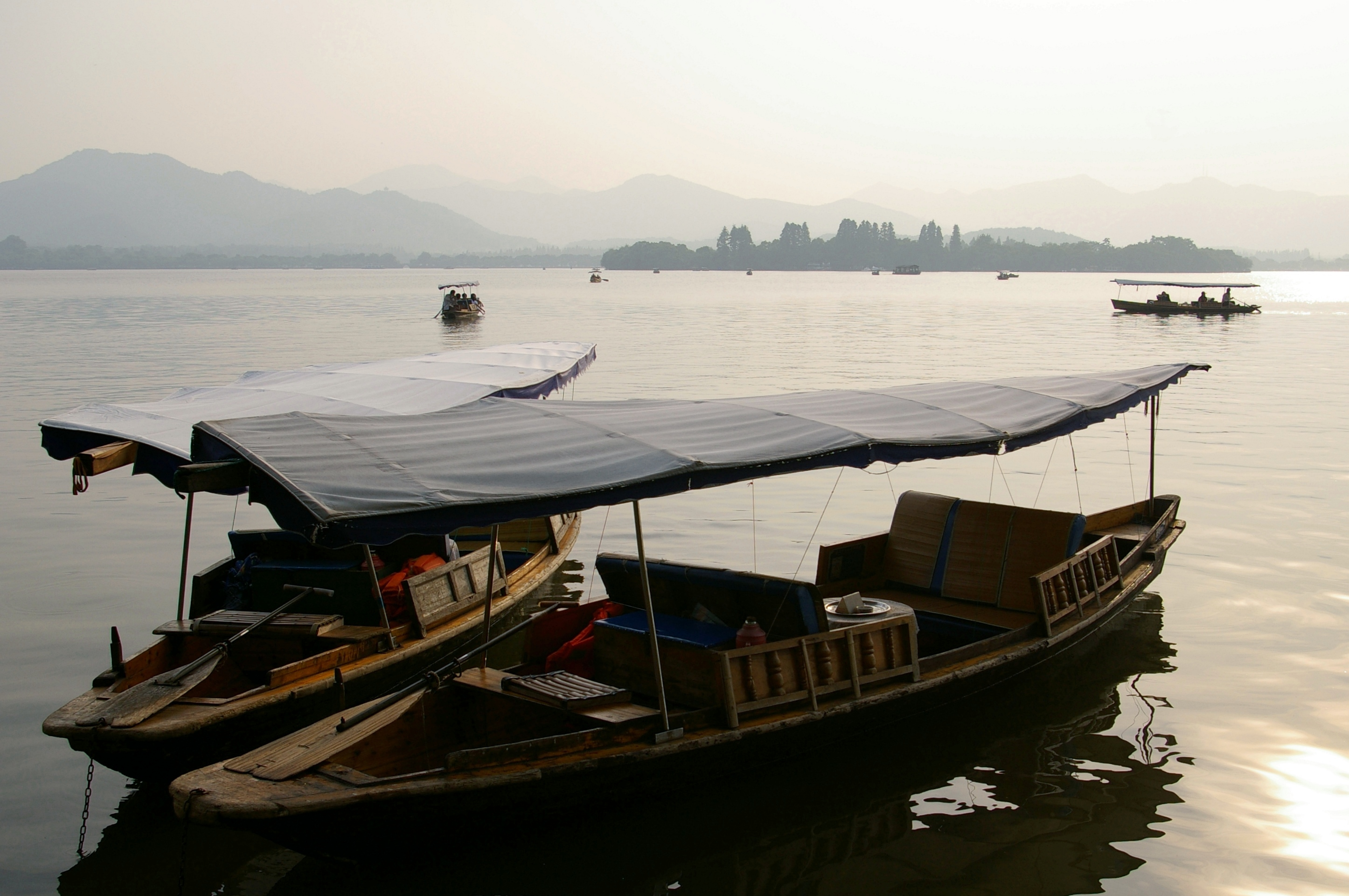 Boats on the West Lake in Hangzhou before sunset